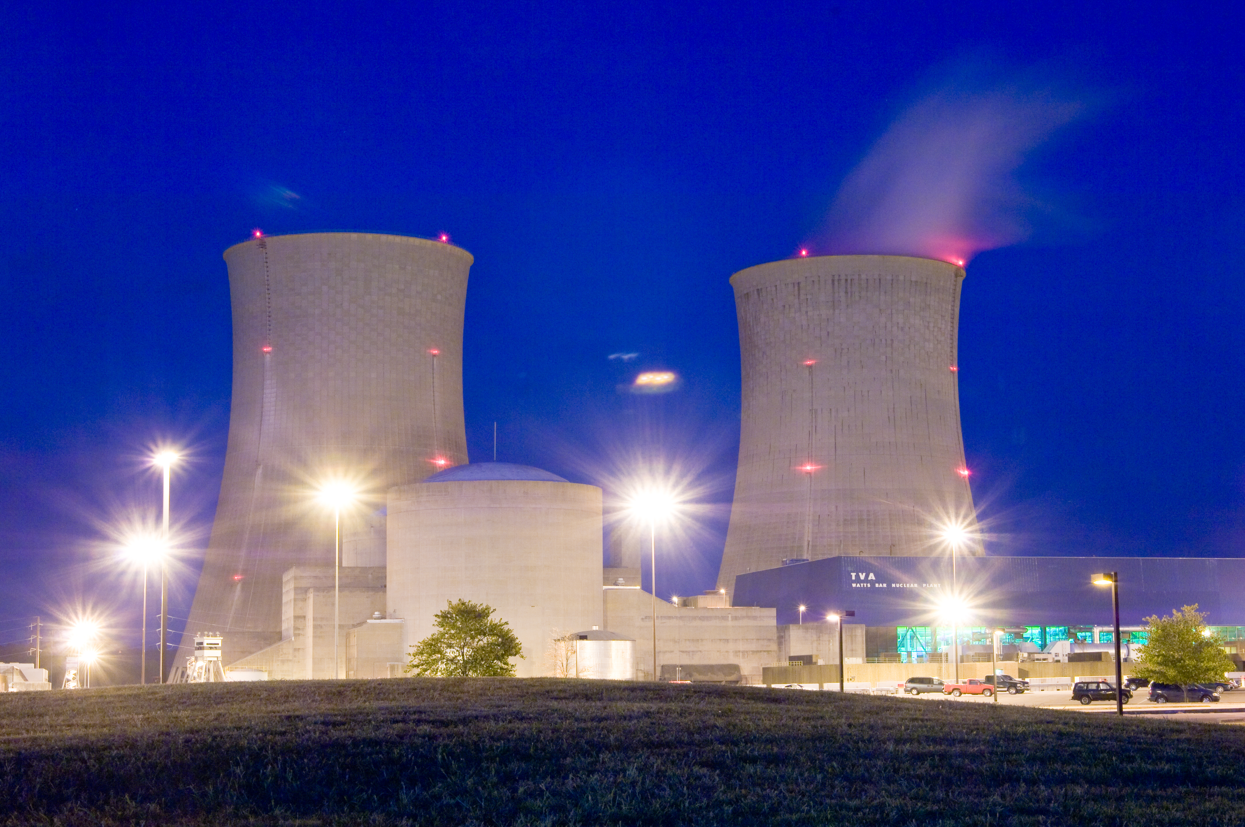 Watts Bar Nuclear Generating Station.